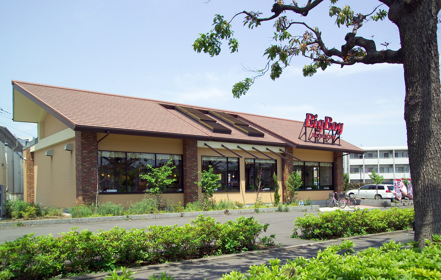 This Big Boy Restaurant is in Chofu, Tokyo, Japan. I took the photo and contribute my rights in this file to the public domain; individuals and organizations retain rights to images in it.